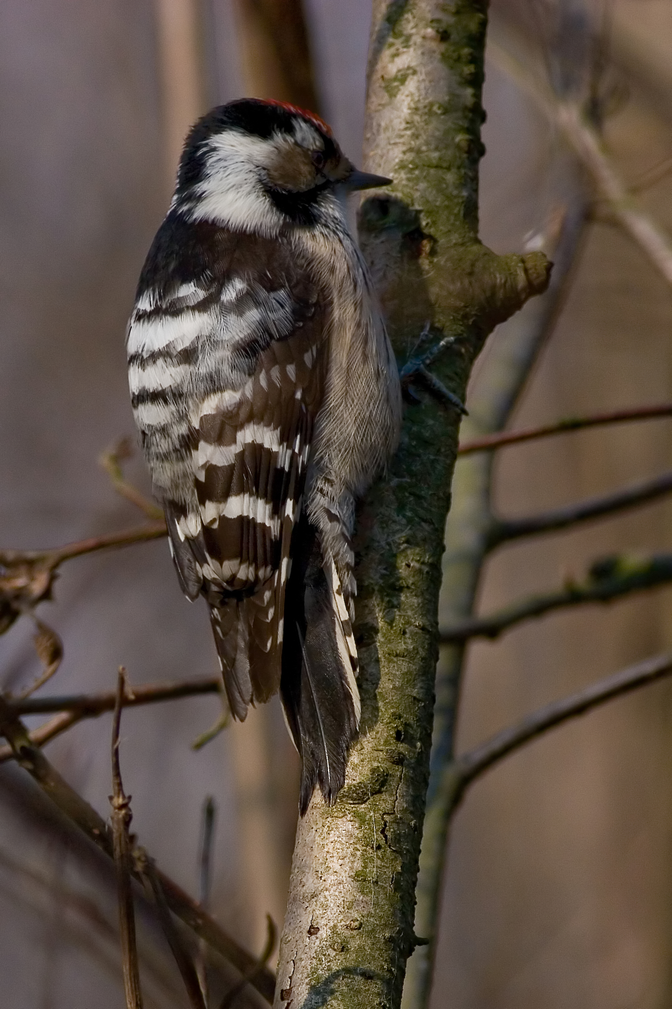 Lesser Spotted Woodpecker (Picoides minor). Photo taken near Vanhankaupunginlahti, Finland. The location is listed in Ramsar "List of Wetlands of International Importance". Geographic location 60º12’N 024º54’E.